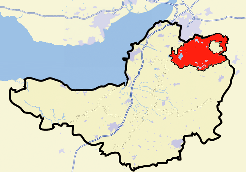 Source: Somserset districts. Based on File:NorthEastSomerset2007Constituency.svg and Wikimedia Outline Map Image:Somerset_outline_map_with_UK.png released with "I grant anyone the right to use this work for any purpose, without any conditions, unless such conditions are required by law." by Lethesl